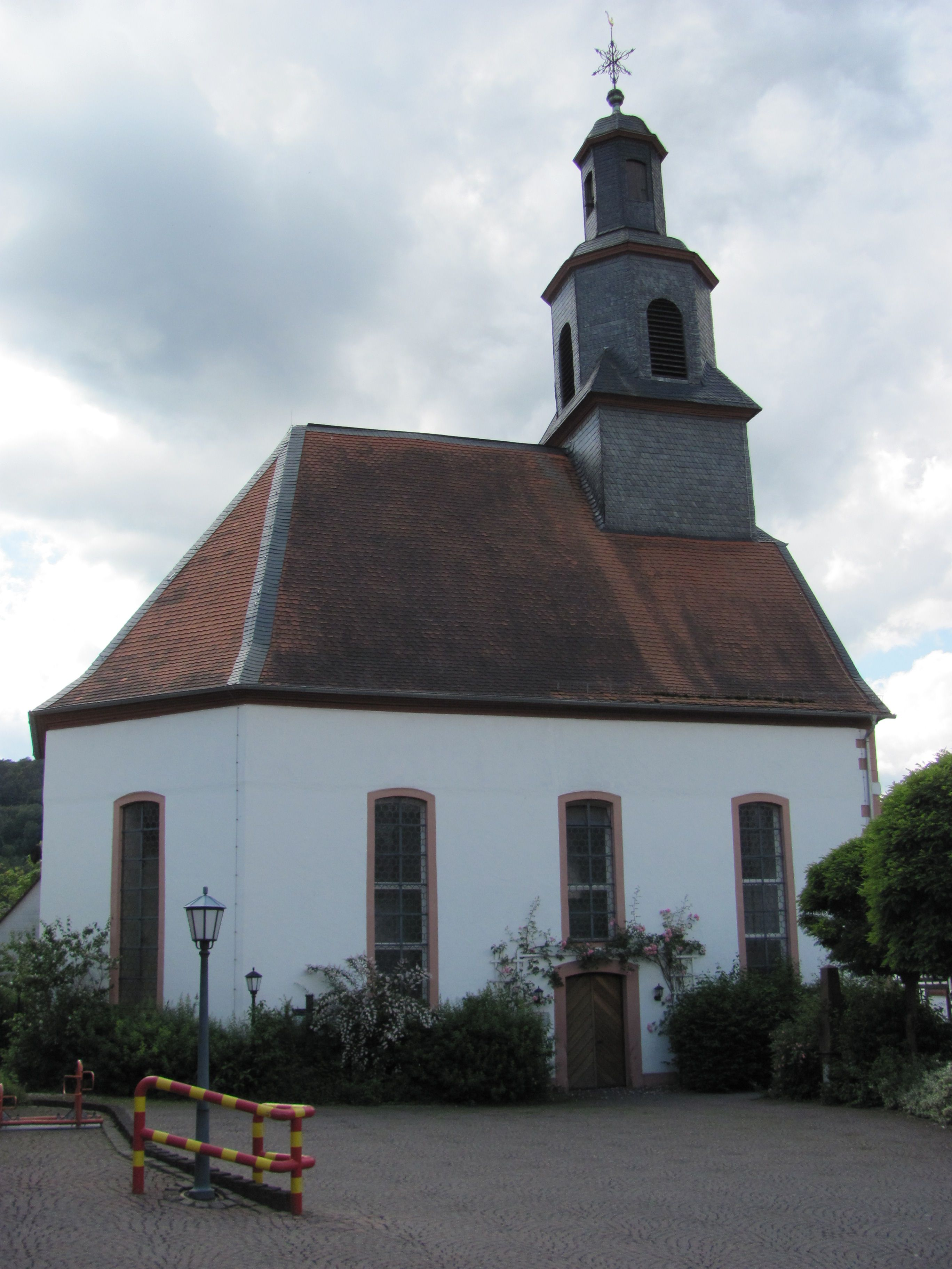 United Protestant Church, Biebergemünd-Bieber, Hessen, Germany